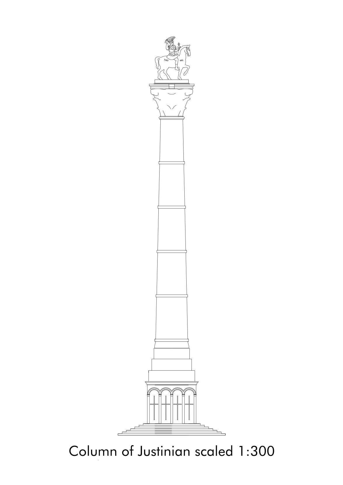 column of Justinian reconstruction 1:300